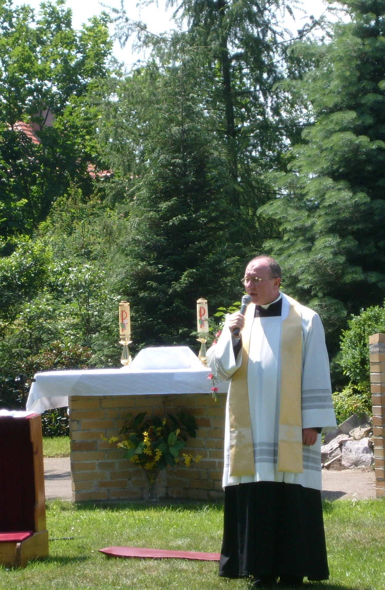 In this foto is main priast of the parish st.Erasmus and Pancratius in Jelenia Góra. I made this foto (michal-jg)